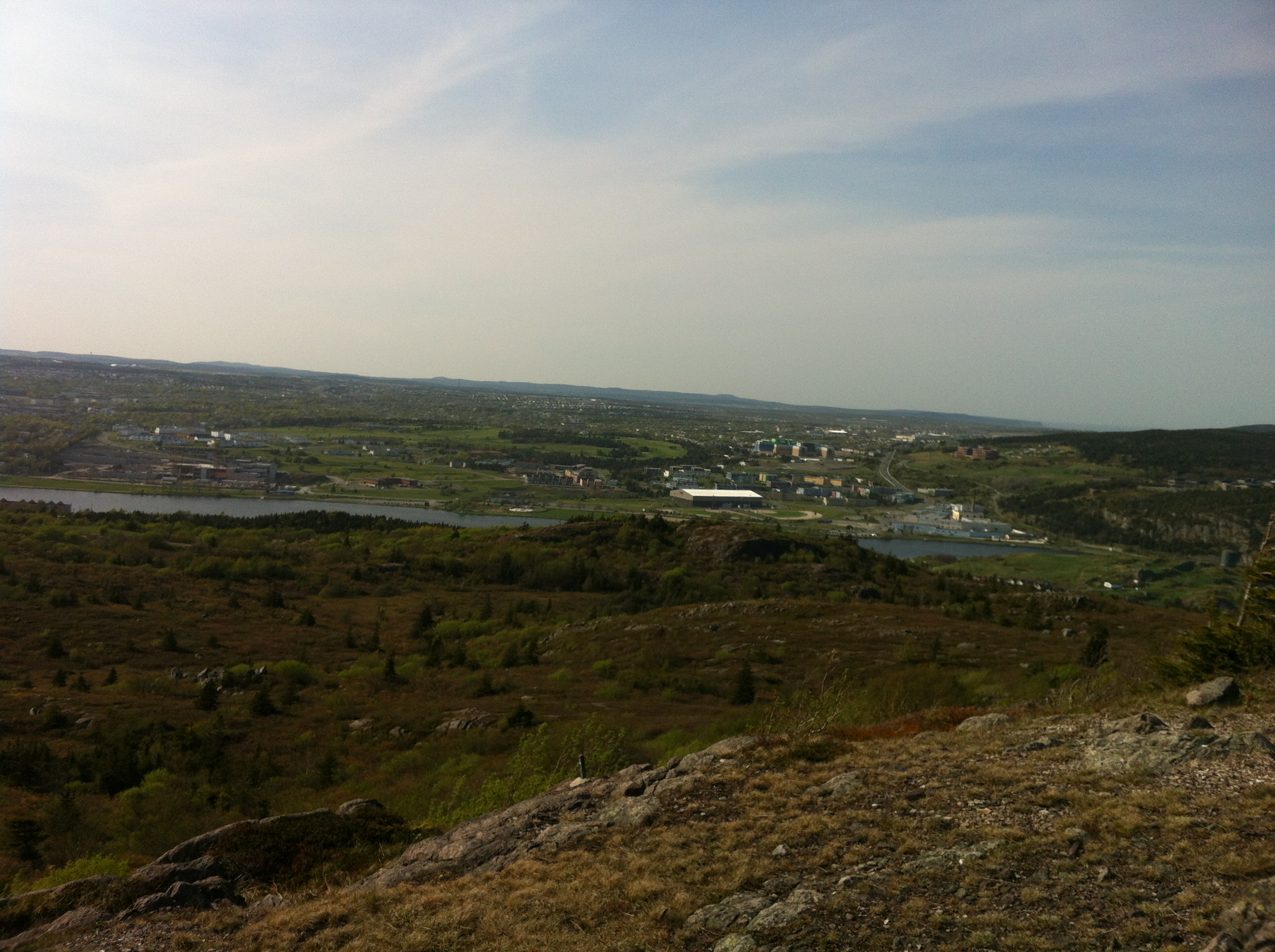 Overlooking Pleasantville from Signal Hill, St. John's